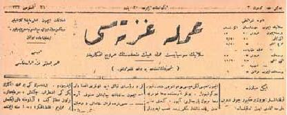 Amele Gazetesi